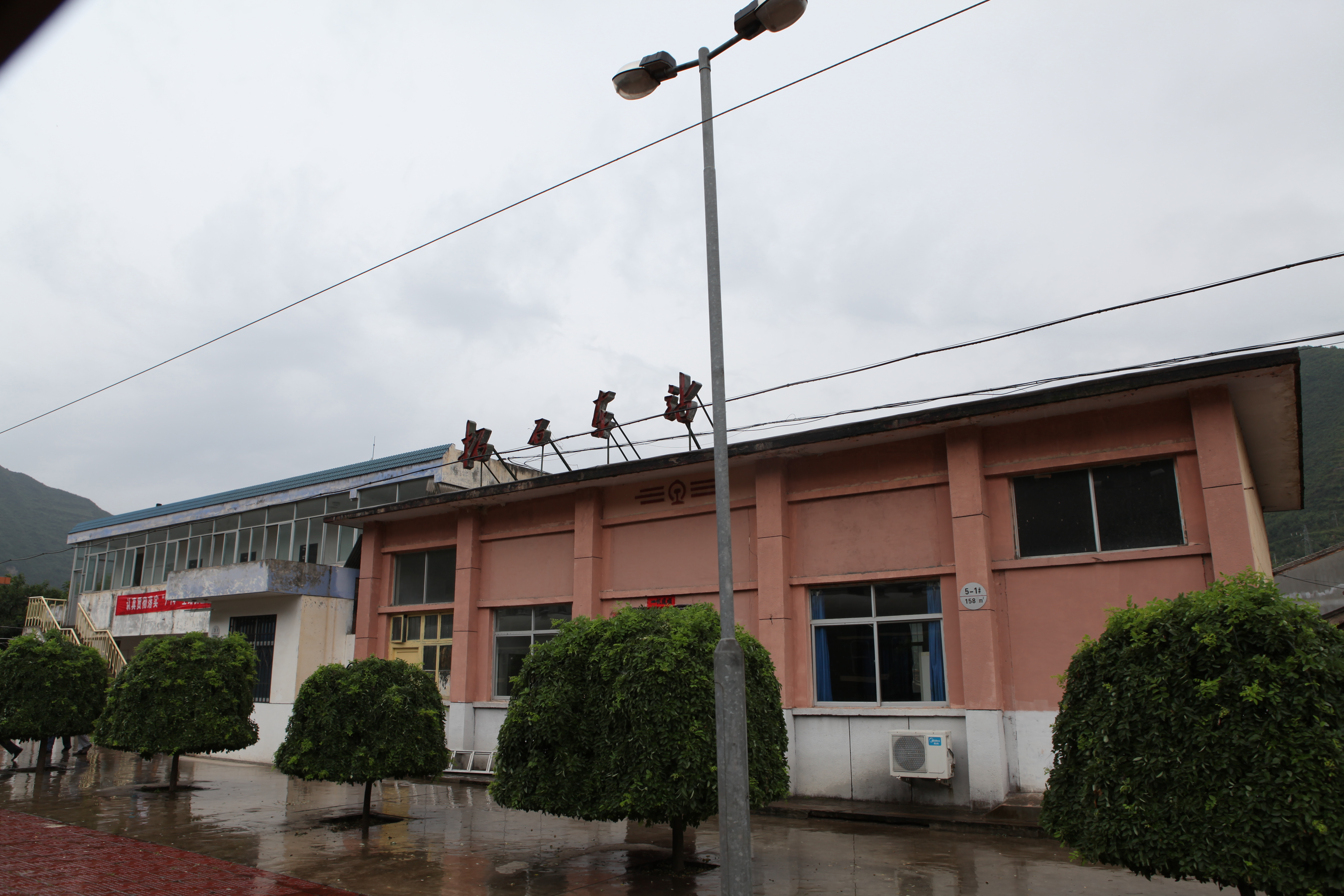 Tashi Station,Longhai Railway